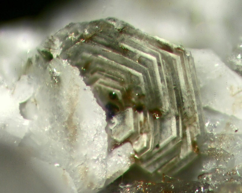 Cordylite-(Ce) Locality: Demix-Varennes quarry, Saint-Amable sill, Varennes & St-Amable, Lajemmerais RCM, Montérégie, Québec, Canada FOV 1.7 x 1.4 mm. Found July 1998. MOB coll. The ID has been confirmed by Pavel Kartashov. He has also determined that white zones are due to surface inclusions of tabular xls of parisite-(Ce).